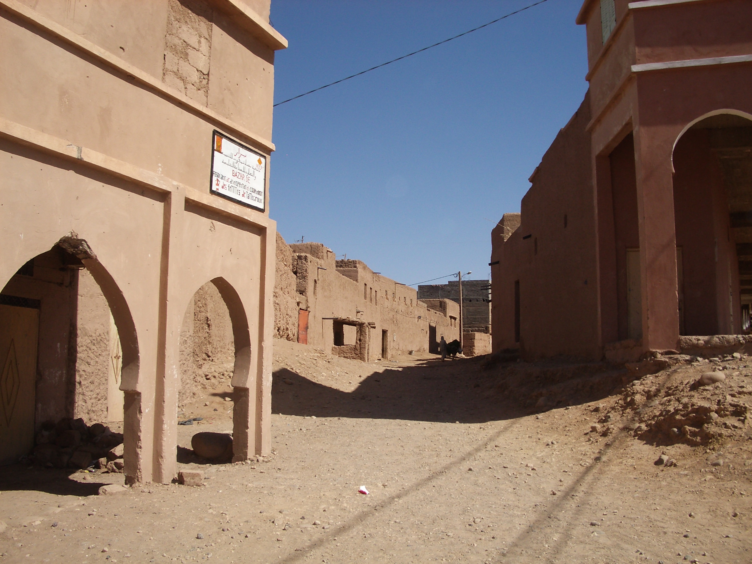 a street at Tamegroute (Marocco)